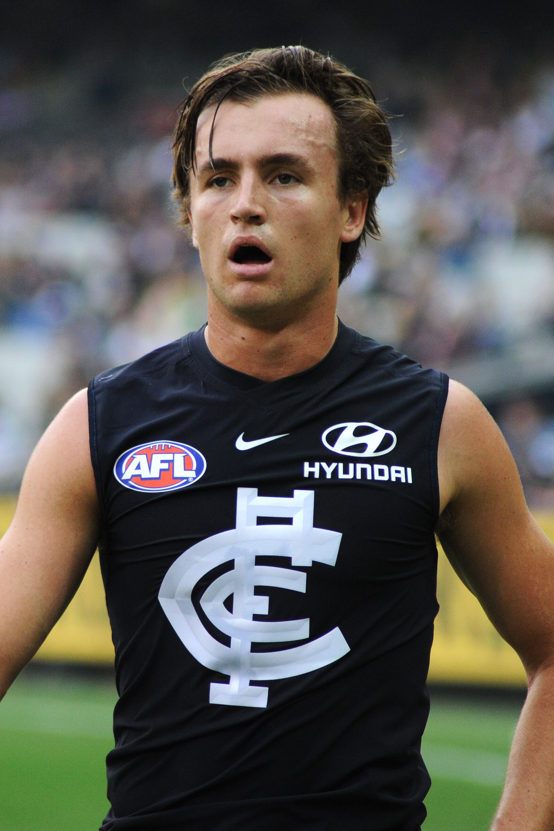 Lochie O'Brien during the AFL round five match between Carlton and West Coast on 21 April 2018 at the Melbourne Cricket Ground in Melbourne, Victoria.